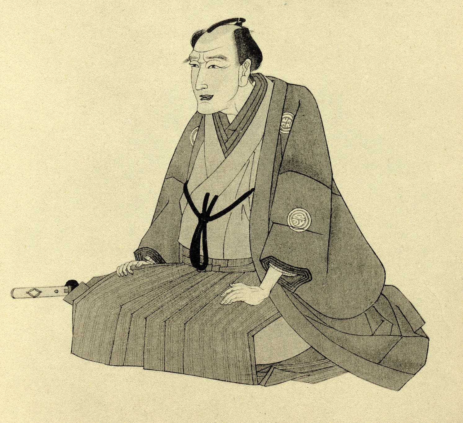 Santo Kyoden (山東京伝) was a poet, writer and artist in the Edo period. This Picture was carried on the book of the name, " 国文学名家肖像集". This book was published in 1939.